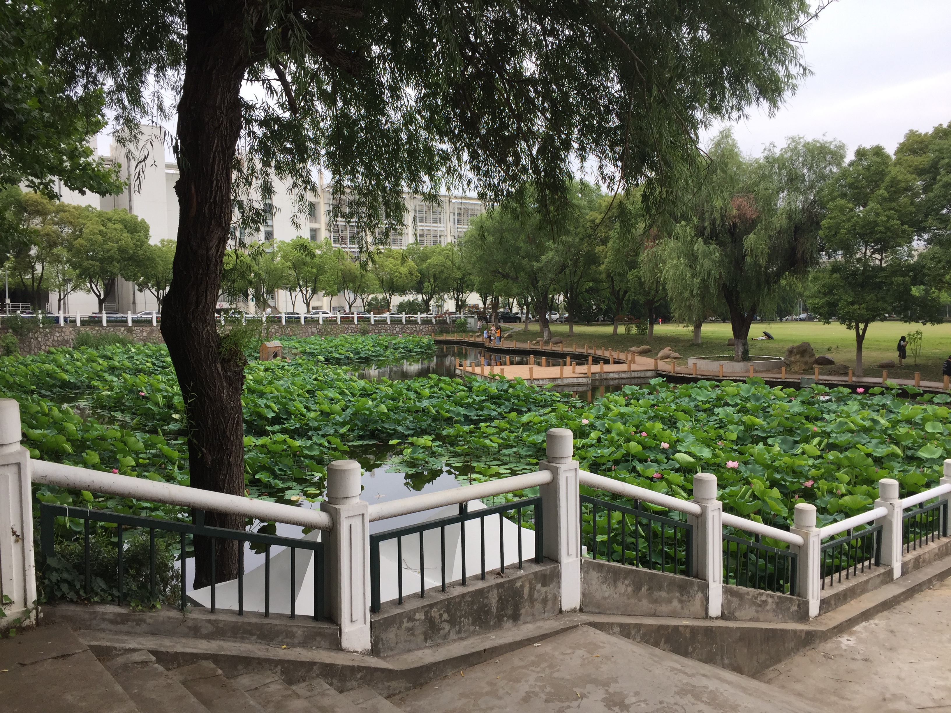 Swan lake at the Xianlin Campus of Nanjing Normal University. There are two black swans in the lake.